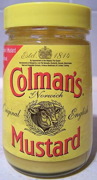 A jar of mustard